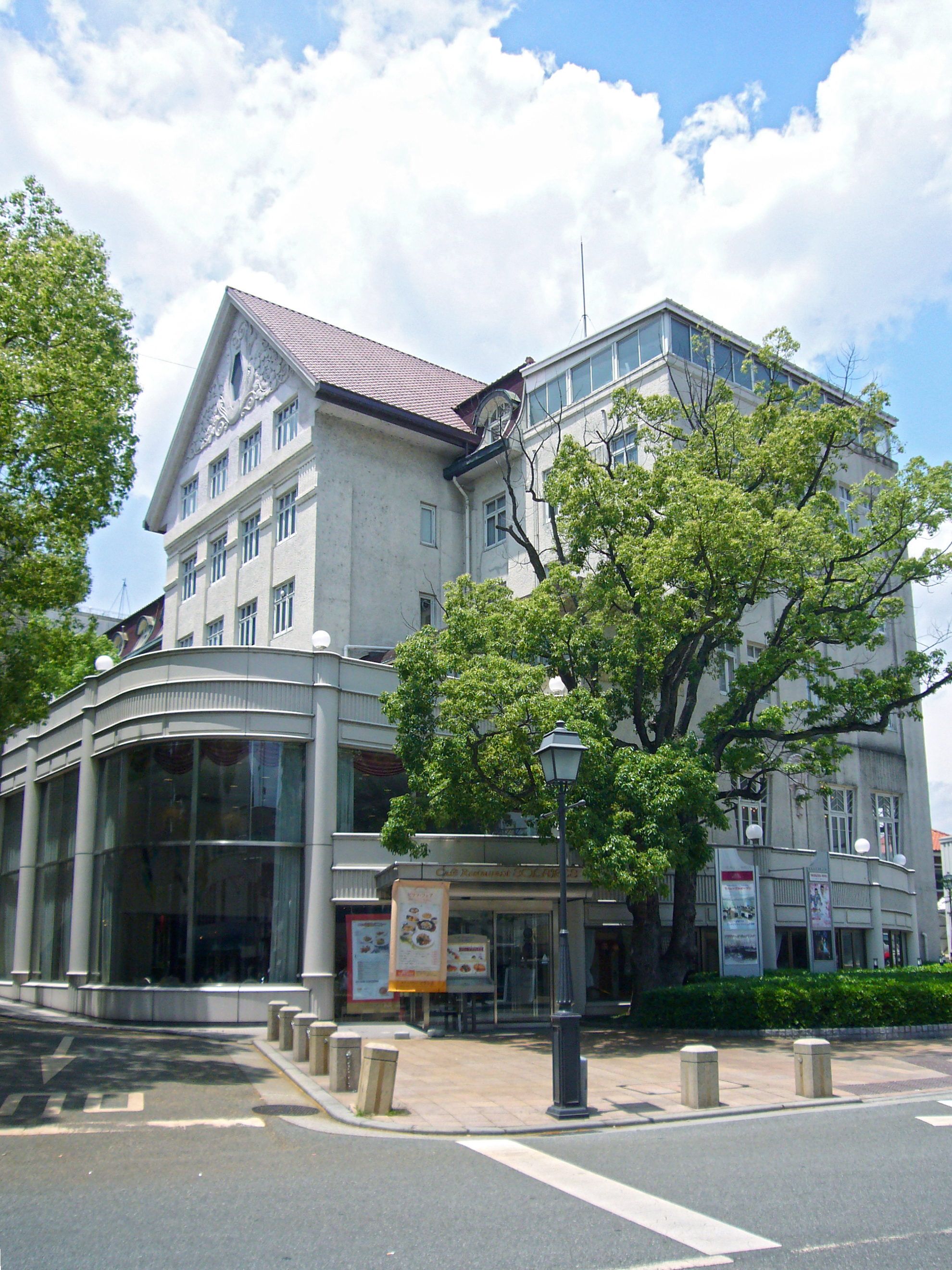 Takarazuka Hotel in Takarazuka, Hyogo prefecture, Japan